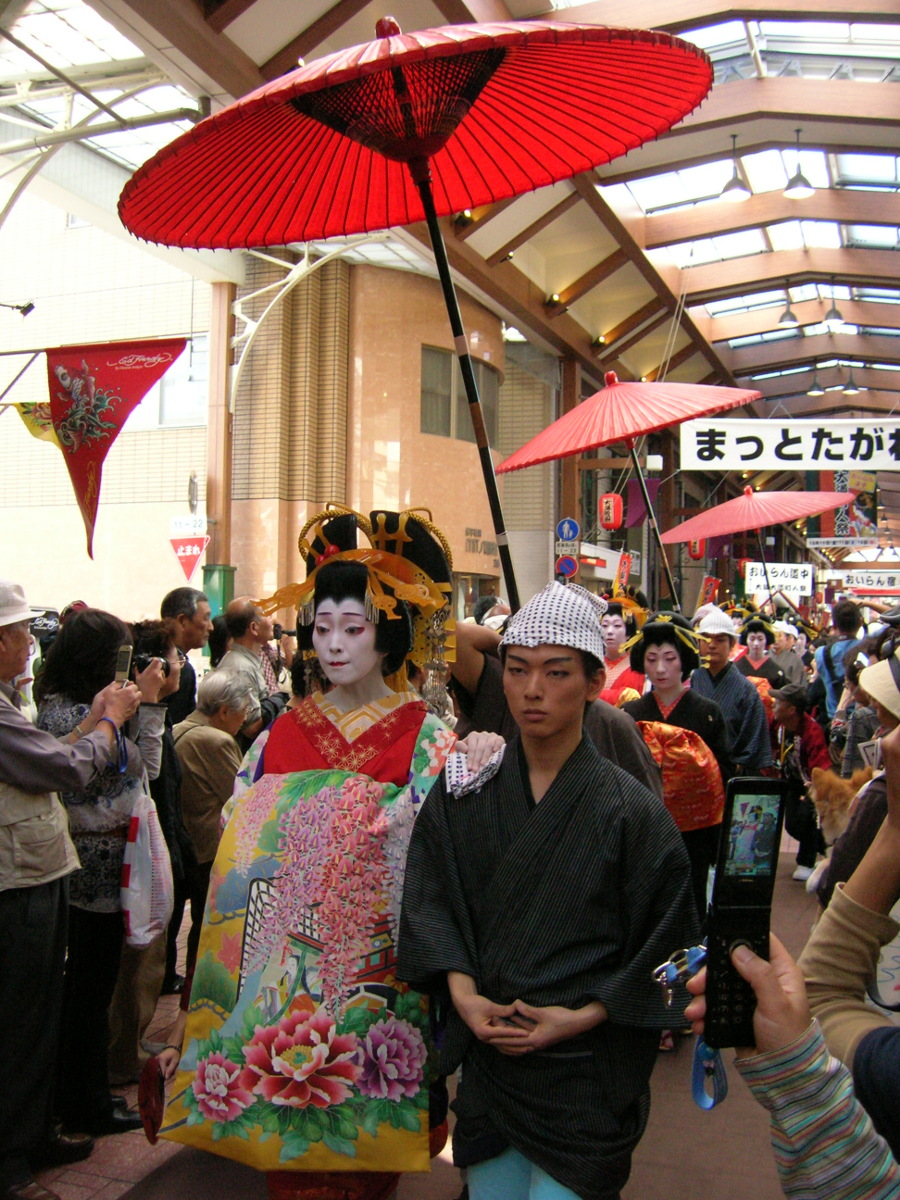 Oiran Dochu. Loc: Osu Daido-chonin Matsuri, Naka-ku, Nagoya city, Aichi Prefecture, Japan. おいらん道中 撮影場所 愛知県名古屋市中区・大須大道町人祭